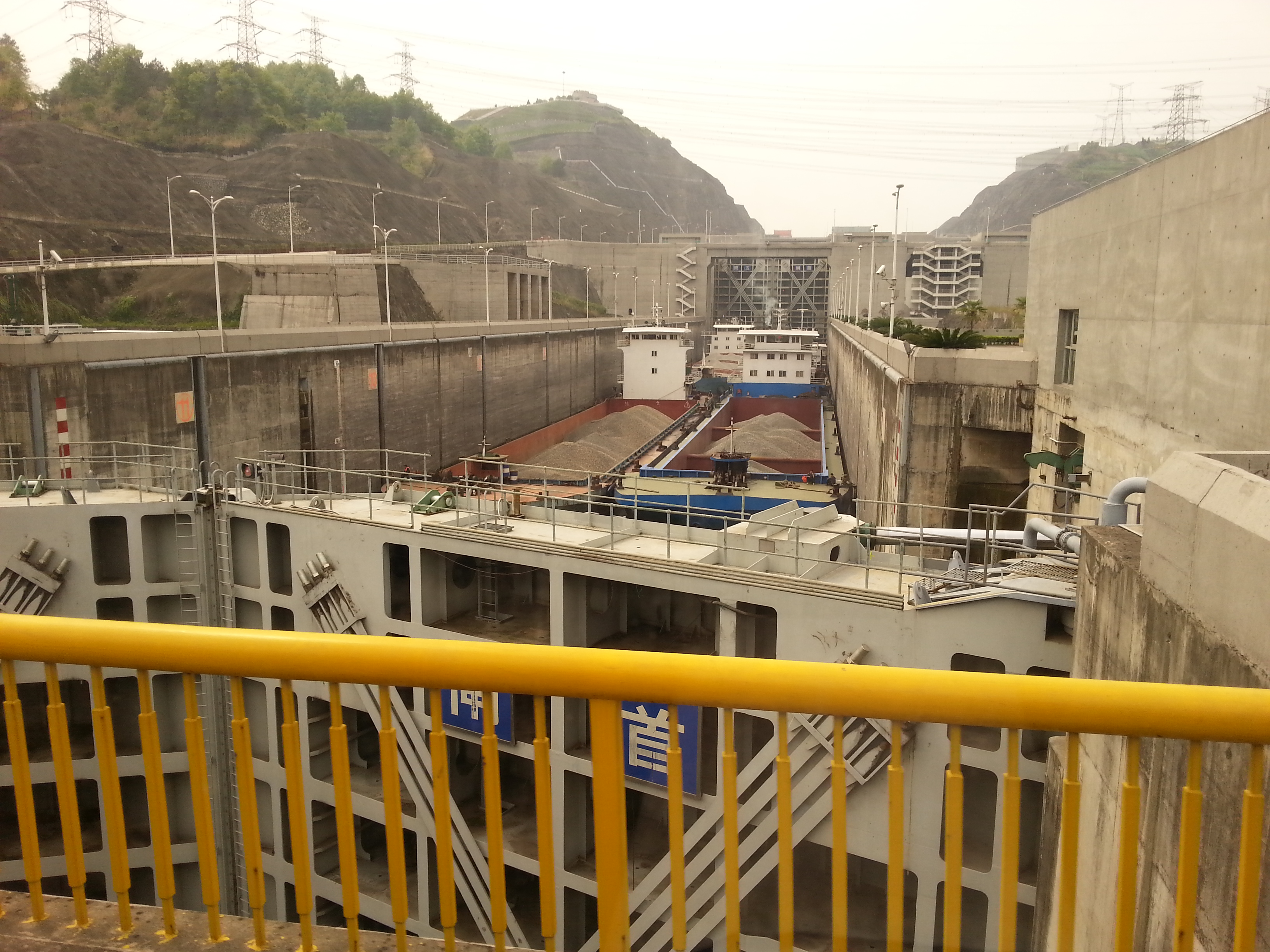 Three Gorges Dam Ship Locks